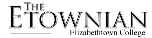 The Etownian, Elizabethtown College's student newspaper. Logo from redesigned website created in 2011.